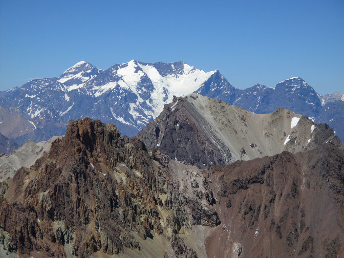 Nevado El Plomo (6070 m) and Cerro Juncal (5950 m) to the south